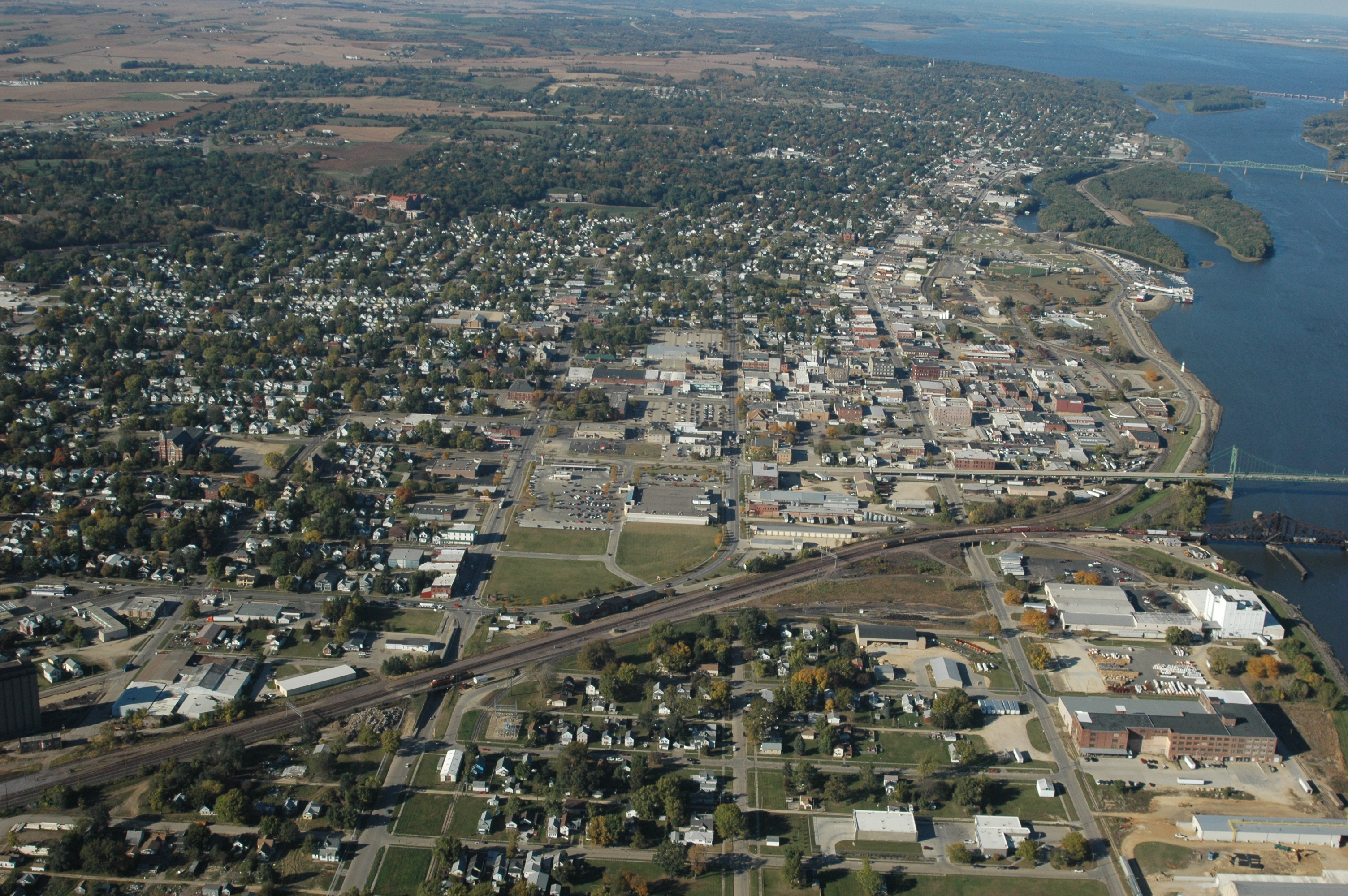 Clinton, Iowa